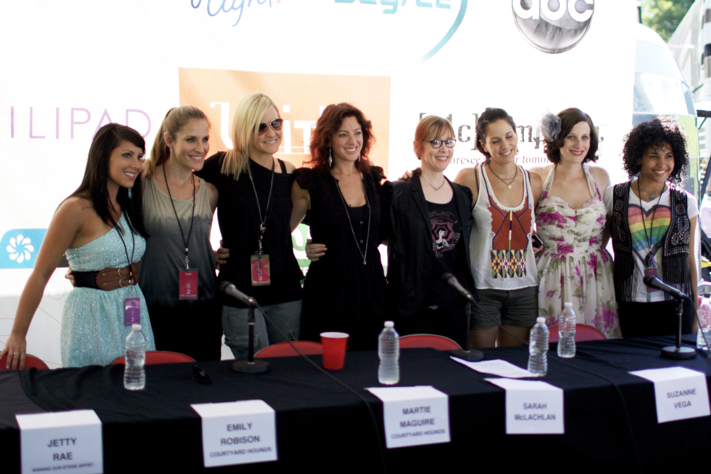 CLARKSTON, MI - JULY 21: Jetty Rae, Emily Robison, Martie Maguire, Sarah McLachlan, Suzanne Vega, Chantal Kreviazuk, Melissa McClelland and Vita Chambers pose at a press conference at the 2010 Lilith Fair at DTE Energy Center on July 21, 2010 in Clarkston, Michigan.